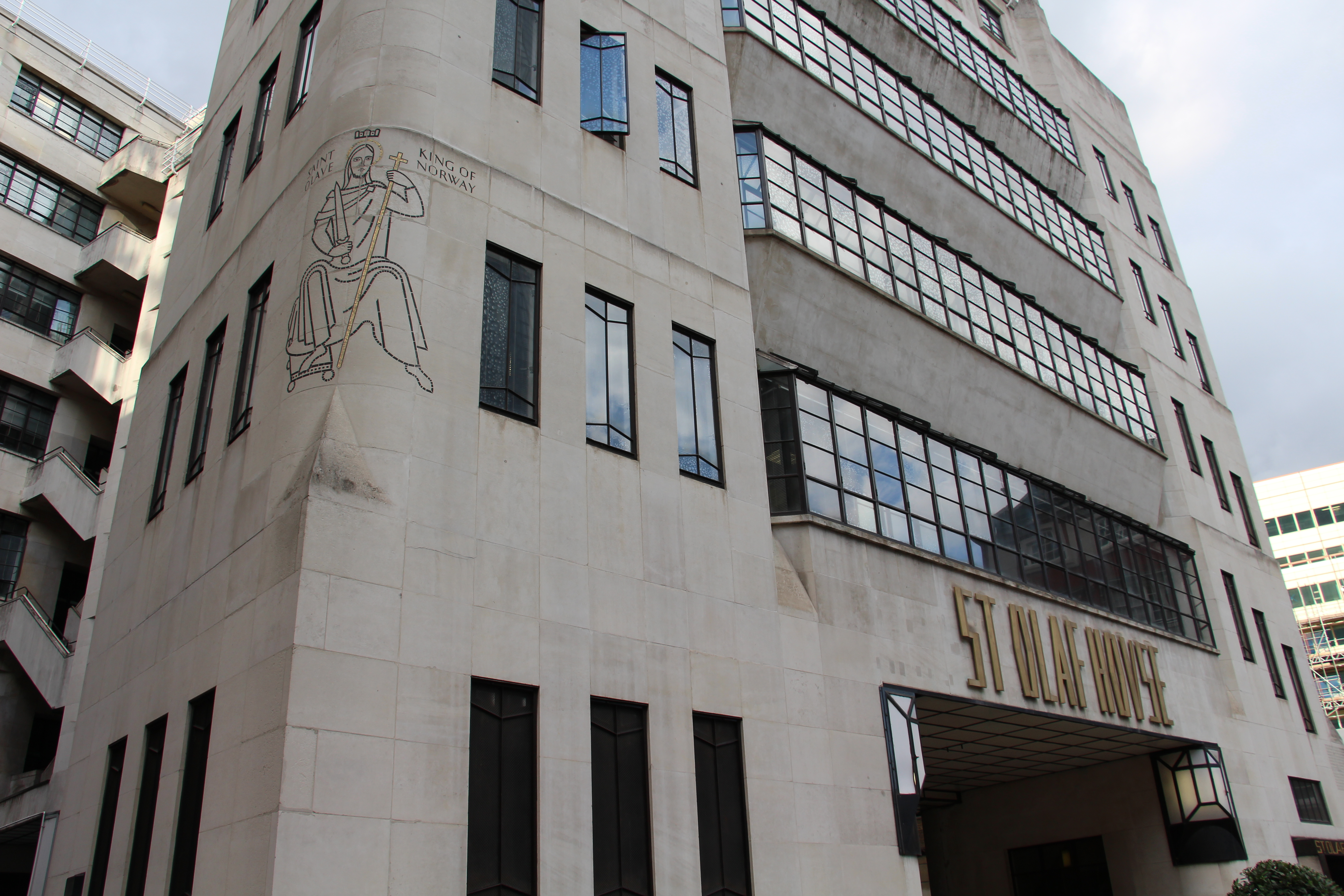 Tooley Street Former London headquarters of the Hay's Wharf Company, founded in 1867. Arch. Harry Stuart Goodhart-Rendel 1929-32